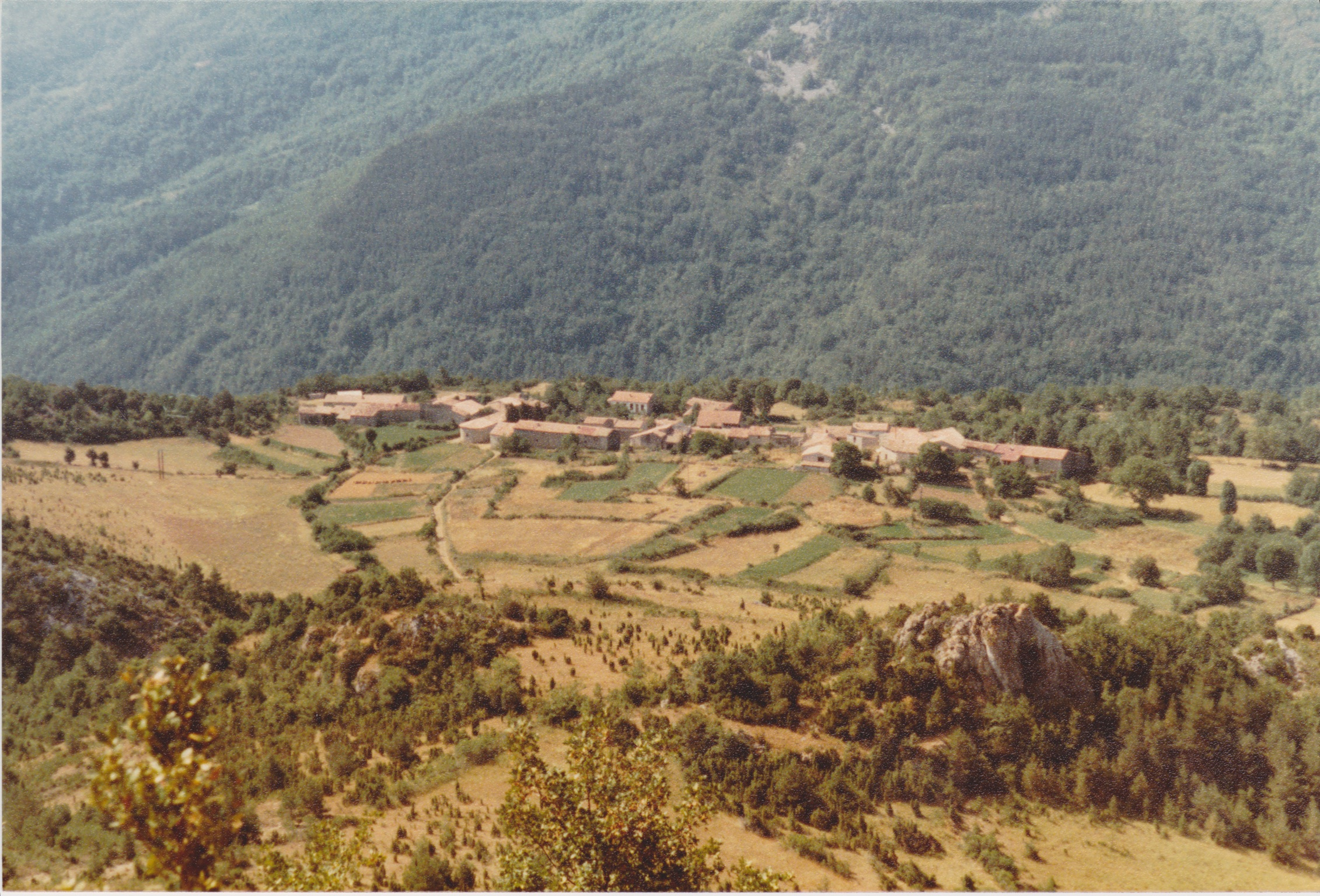 Vue des hauteurs de Quirbajou en 85. View of the french village of Quirbajou in the summer of 1985.